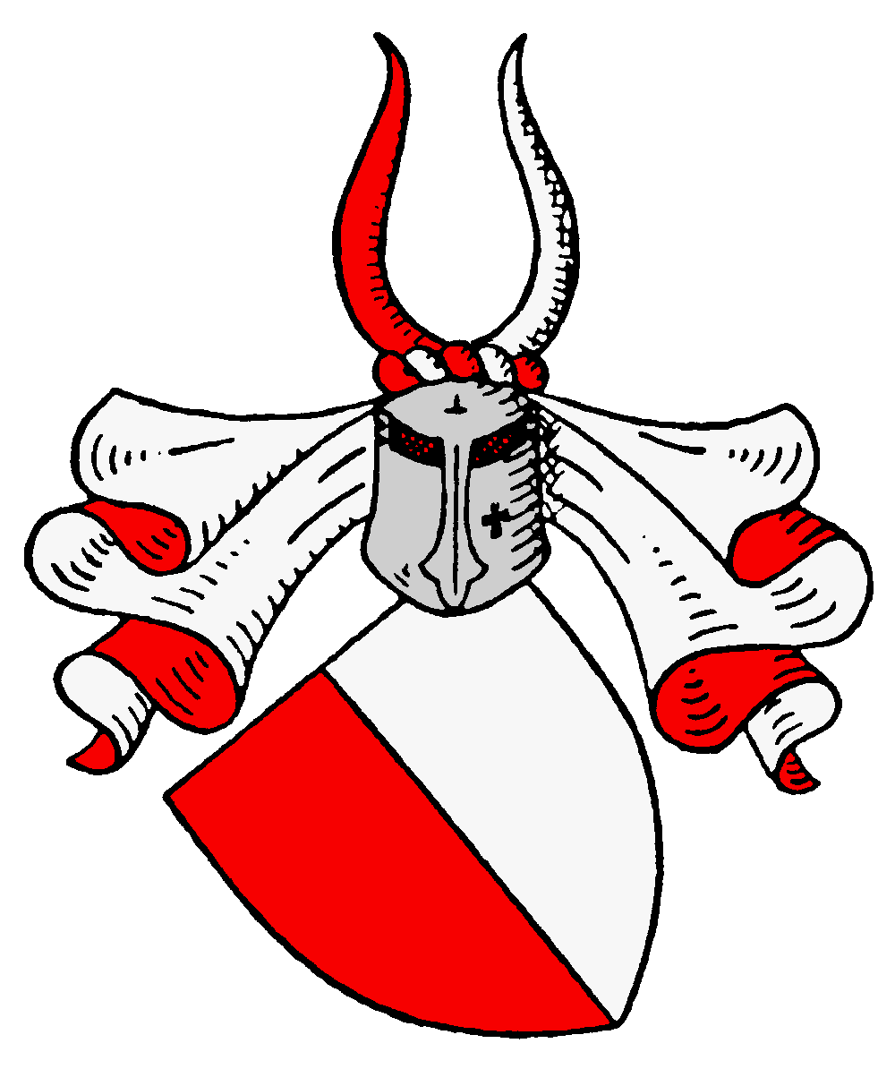 Arms of Rantzau (variation)